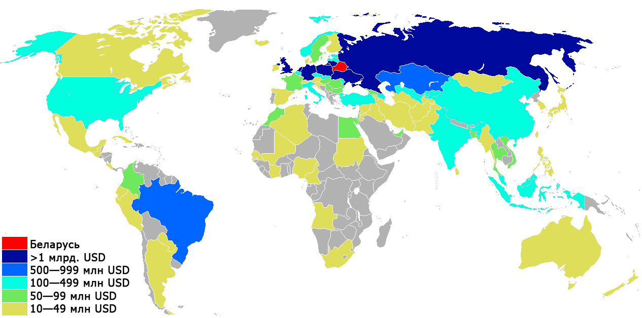 Exports of Belarus (2018, in belarusian and russian)